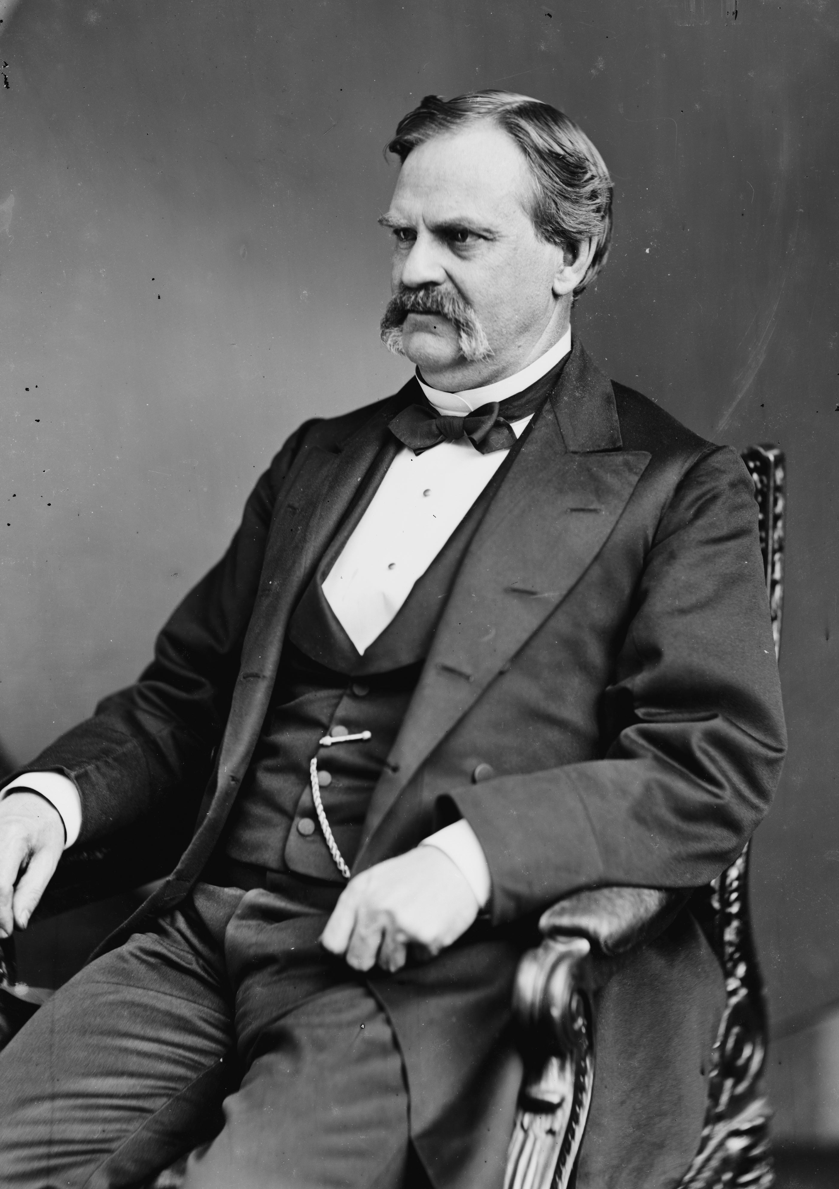 William Adams Richardson, former Secretary of the Treasury of the United States.